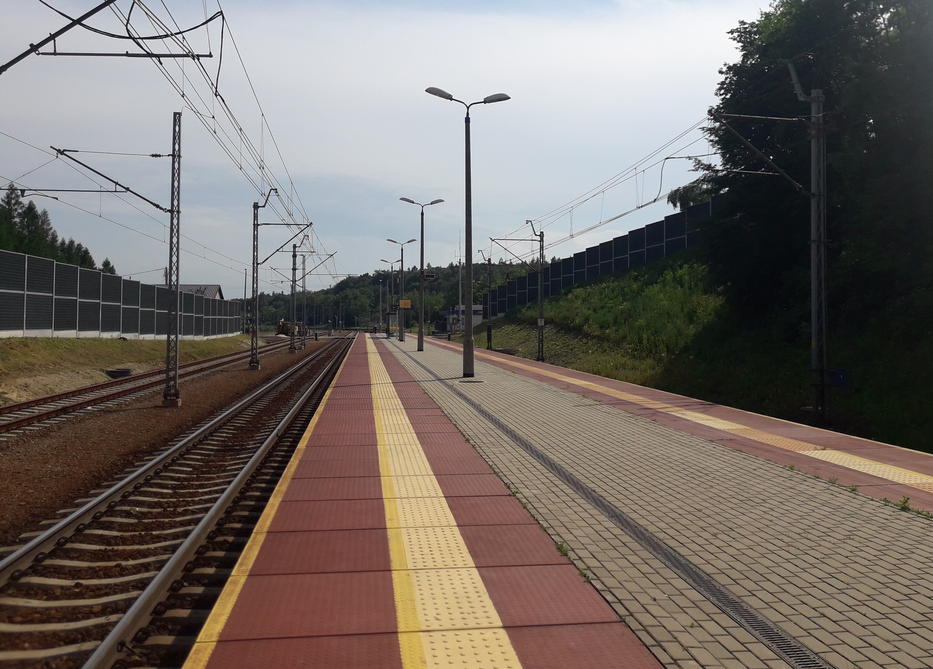 The platform at the Tunel railway station.